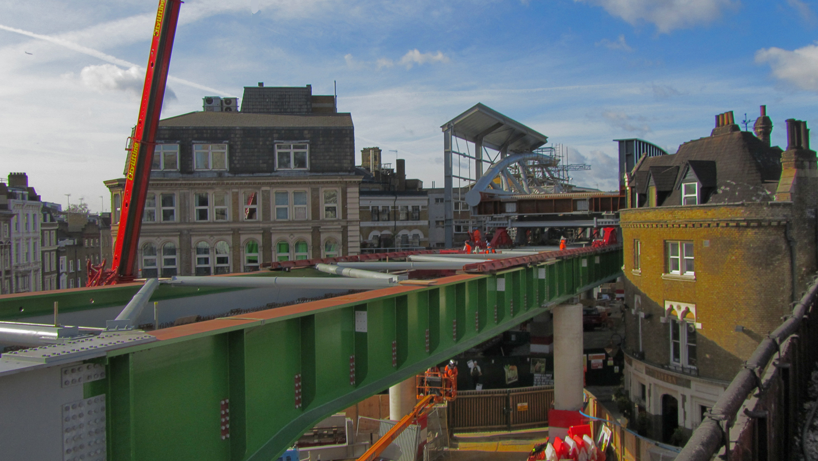 Borough Market Viaduct under construction at Bedale Street